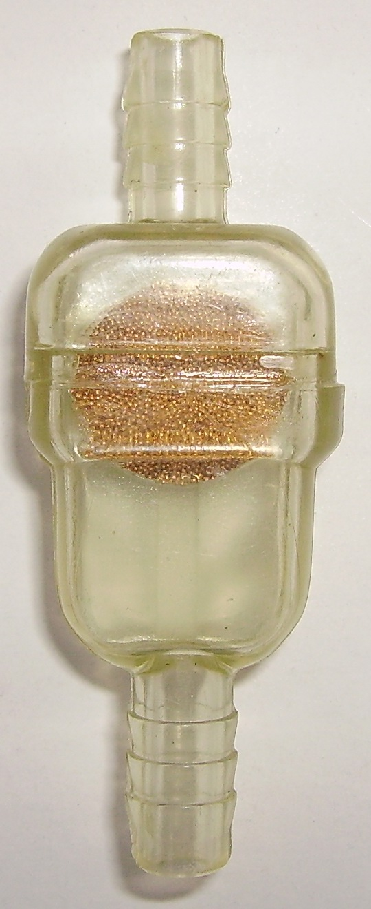 Fuel filter for mopeds, lawn mowers, ...